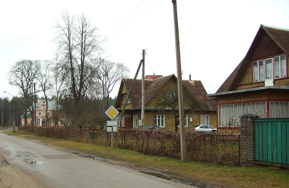 Valkininkai